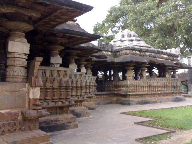 Hangal Tarakeshwara temple first half